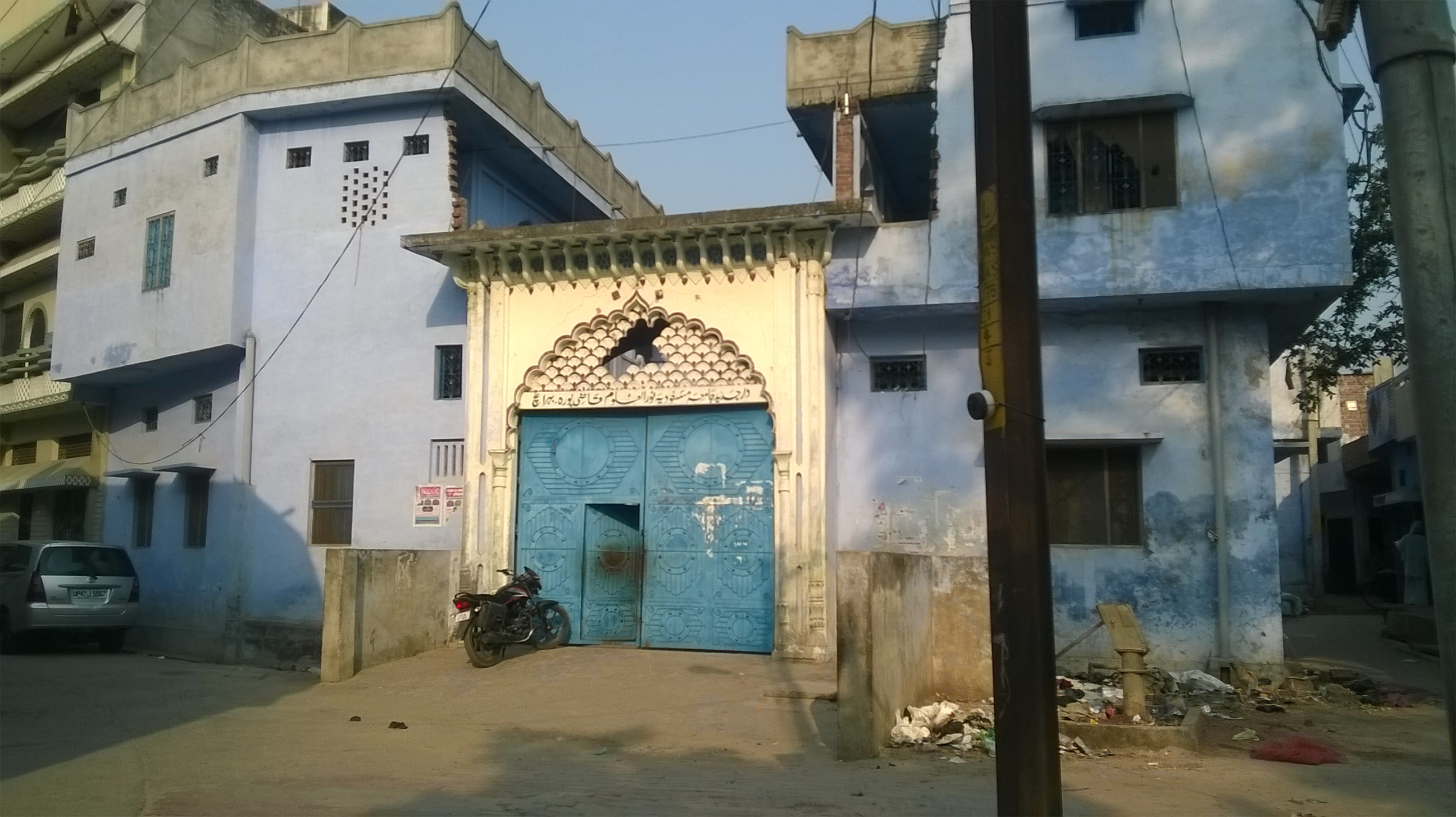 Noorul Uloom Bahraich's main building 's panoramic view